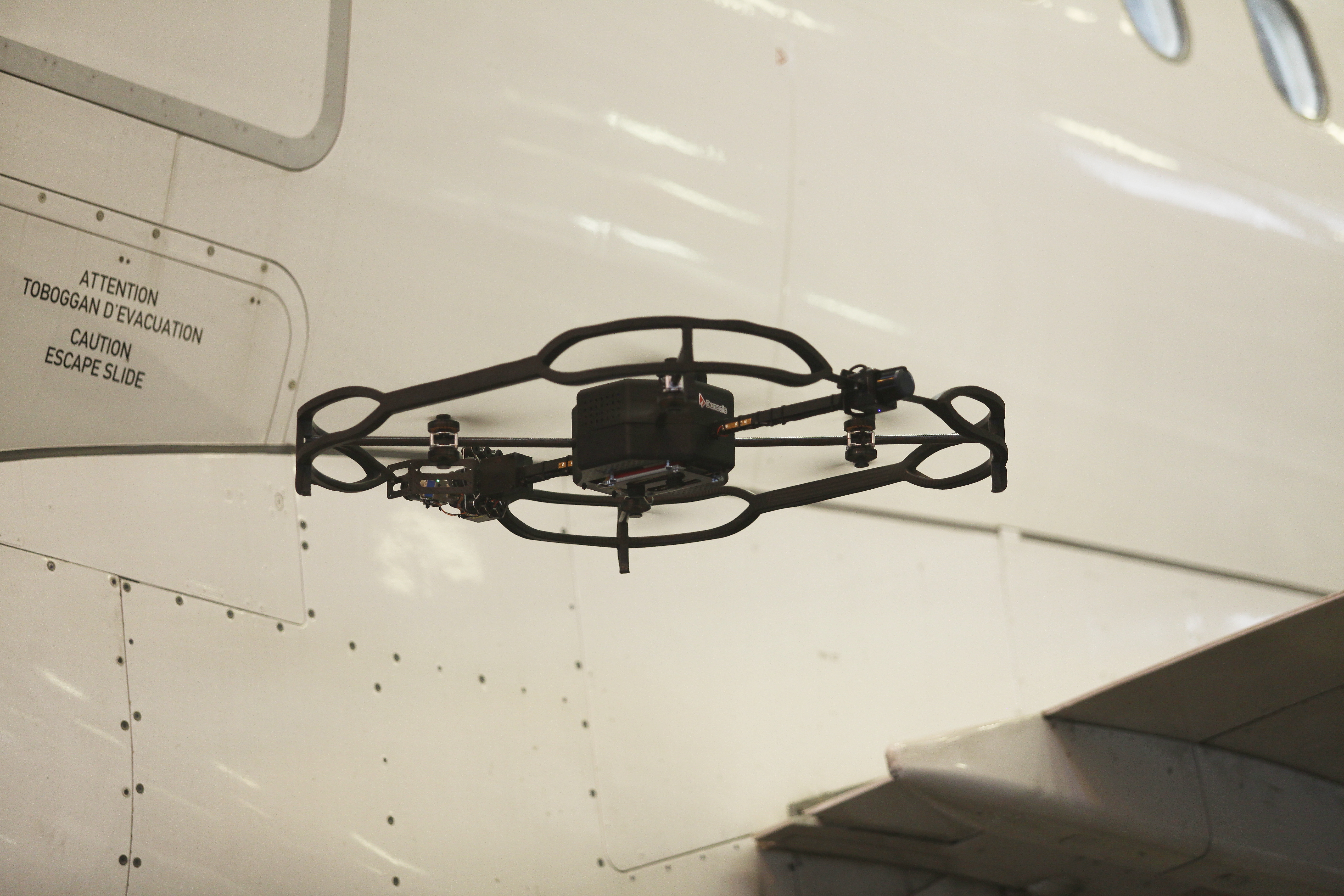 Donecle's drone is inspecting an aircraft during a maintenance operation. The picture was taken in an hangar of Air France Industries, Toulouse, France.